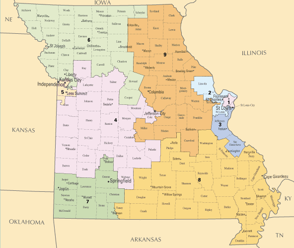 Missouri's congressional districts prior to 2012 redistricting